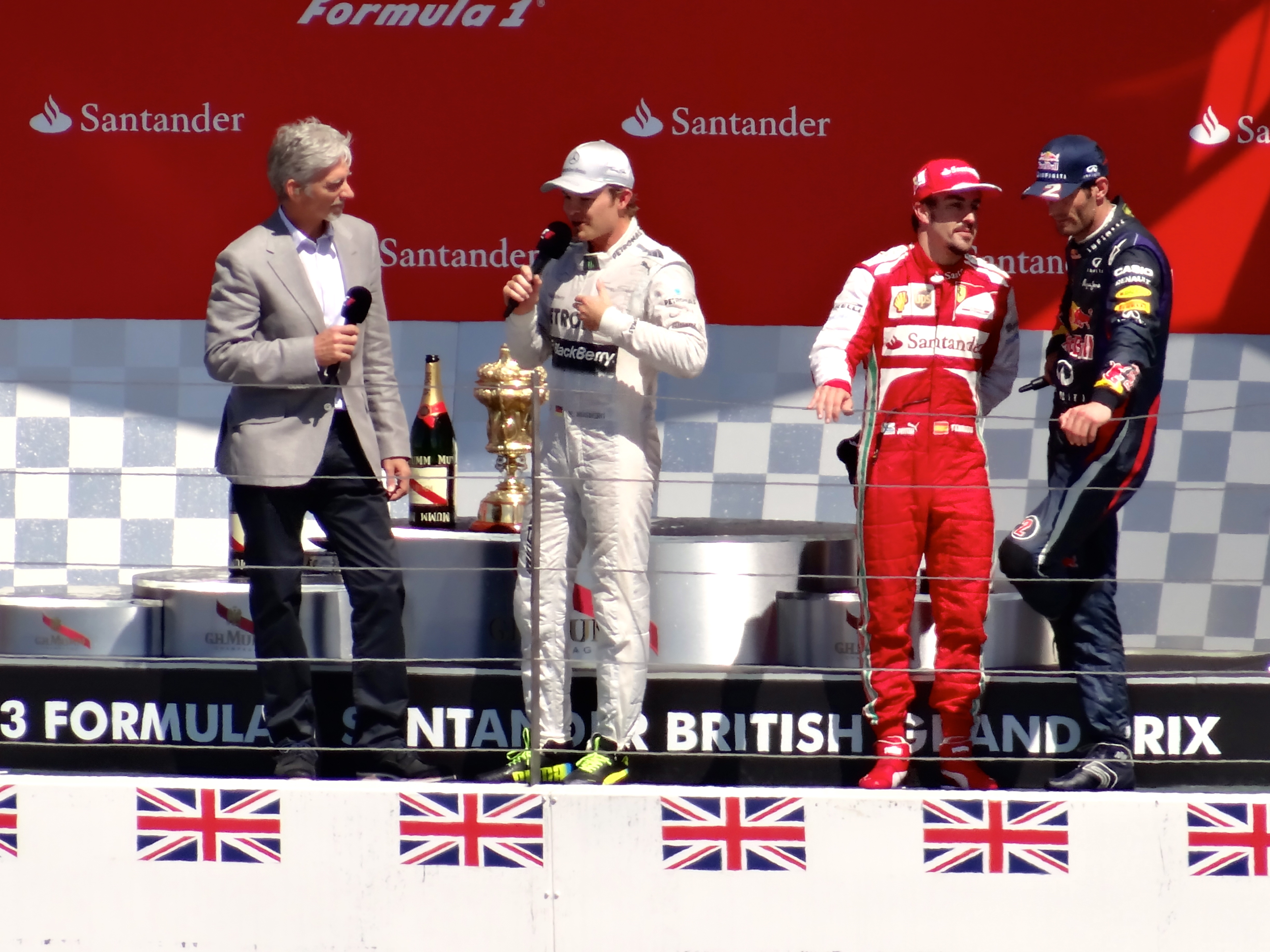 2013 British Grand Prix podium: Damon Hill interviewing Nico Rosberg.